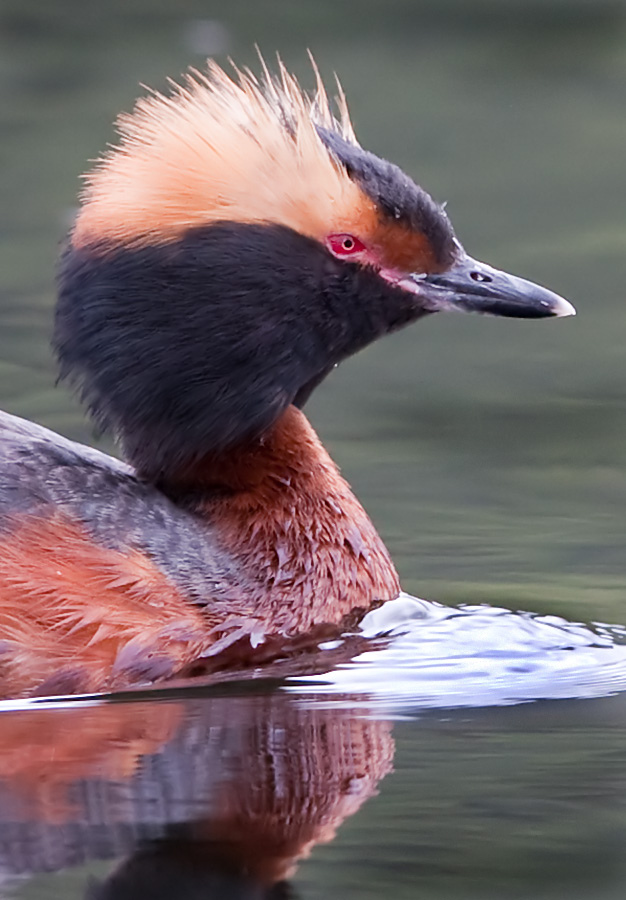 A Horned Grebe (also known as Slavonian Grebe) in Scotland.